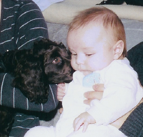 Chiot avec bebe